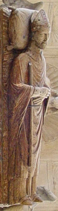 Saint John of Trogir